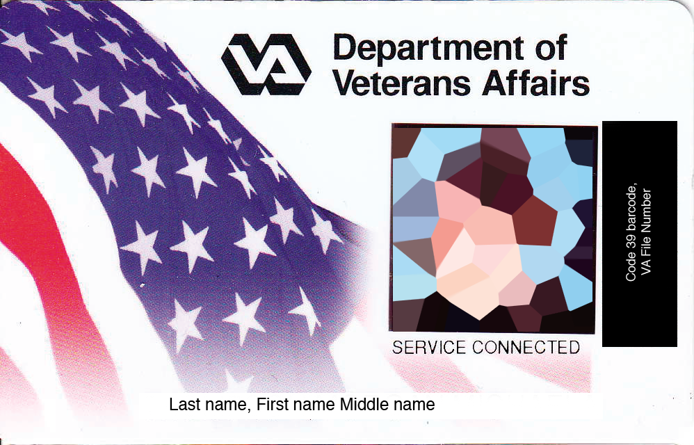 The front of my VAID, as redacted